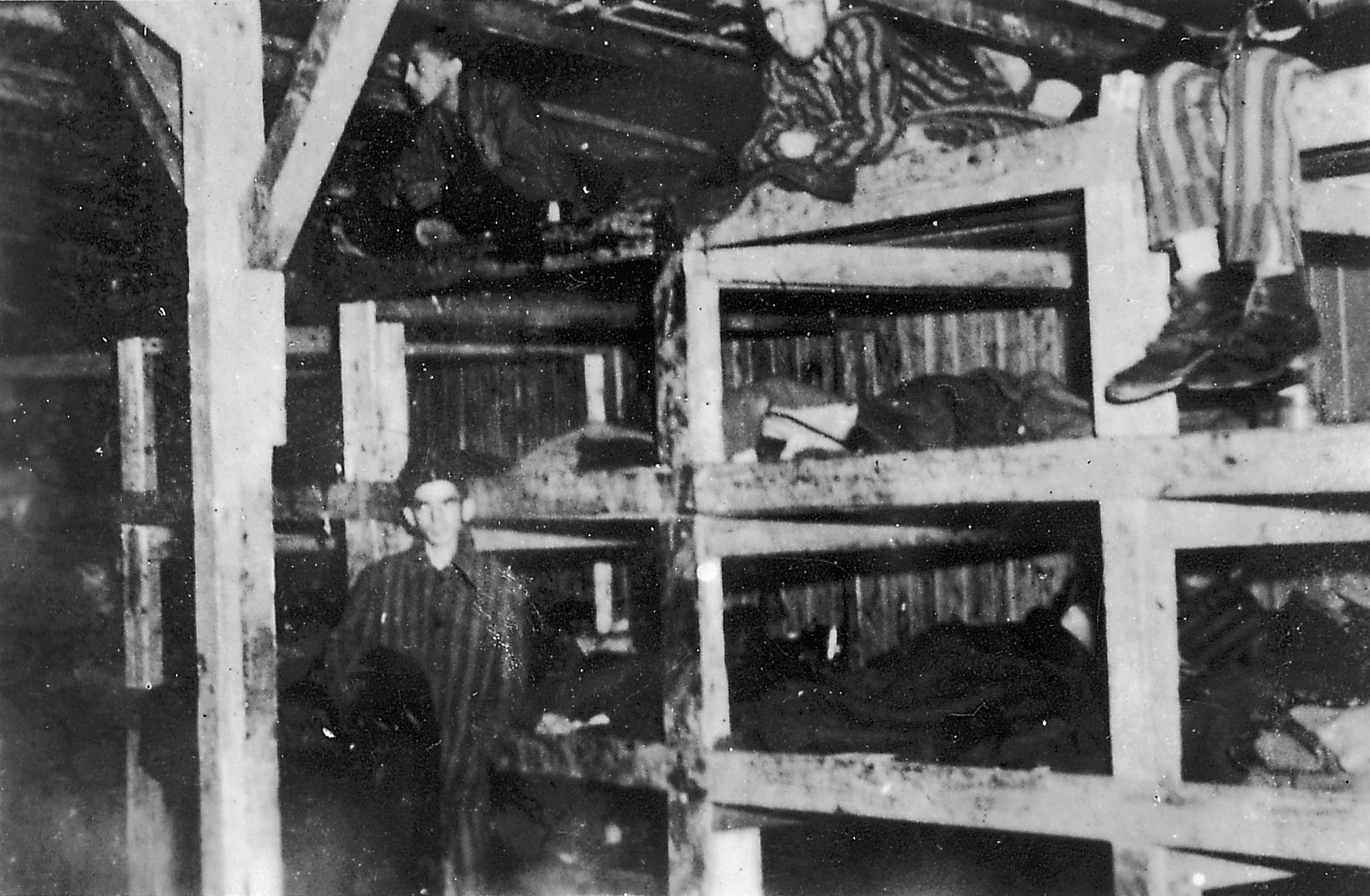 Liberation of the Nazi camp of Buchenwald. Prisoners dormitory – 3 man by box